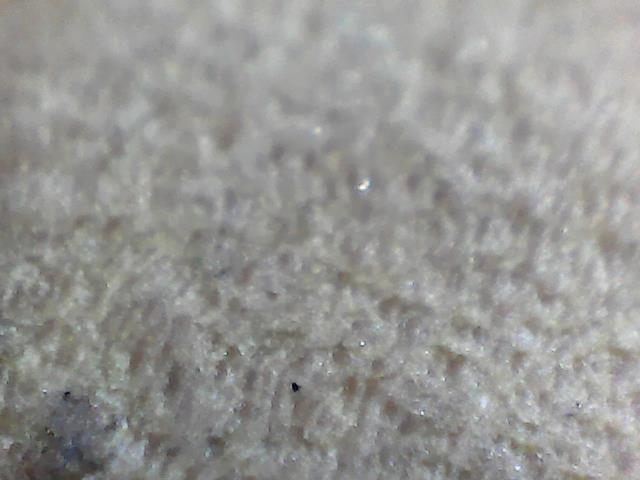 Poliestileno visto desde un microscopio.